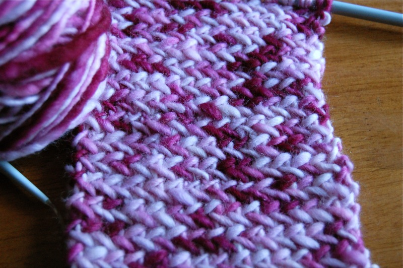 An example of a knitted herringbone stitch